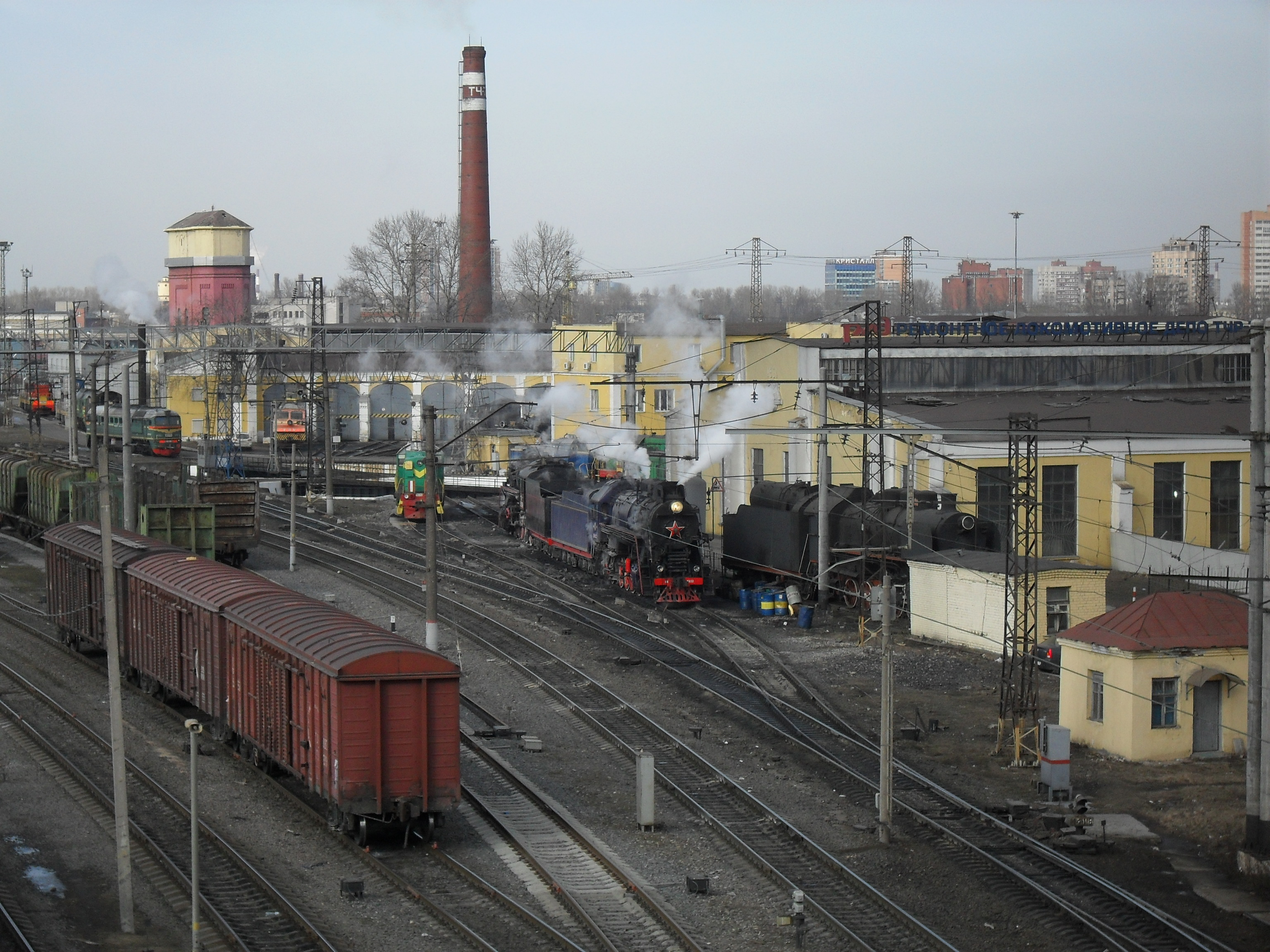 Sankt-Petersburg-Sortirovochny-Moskovskiy